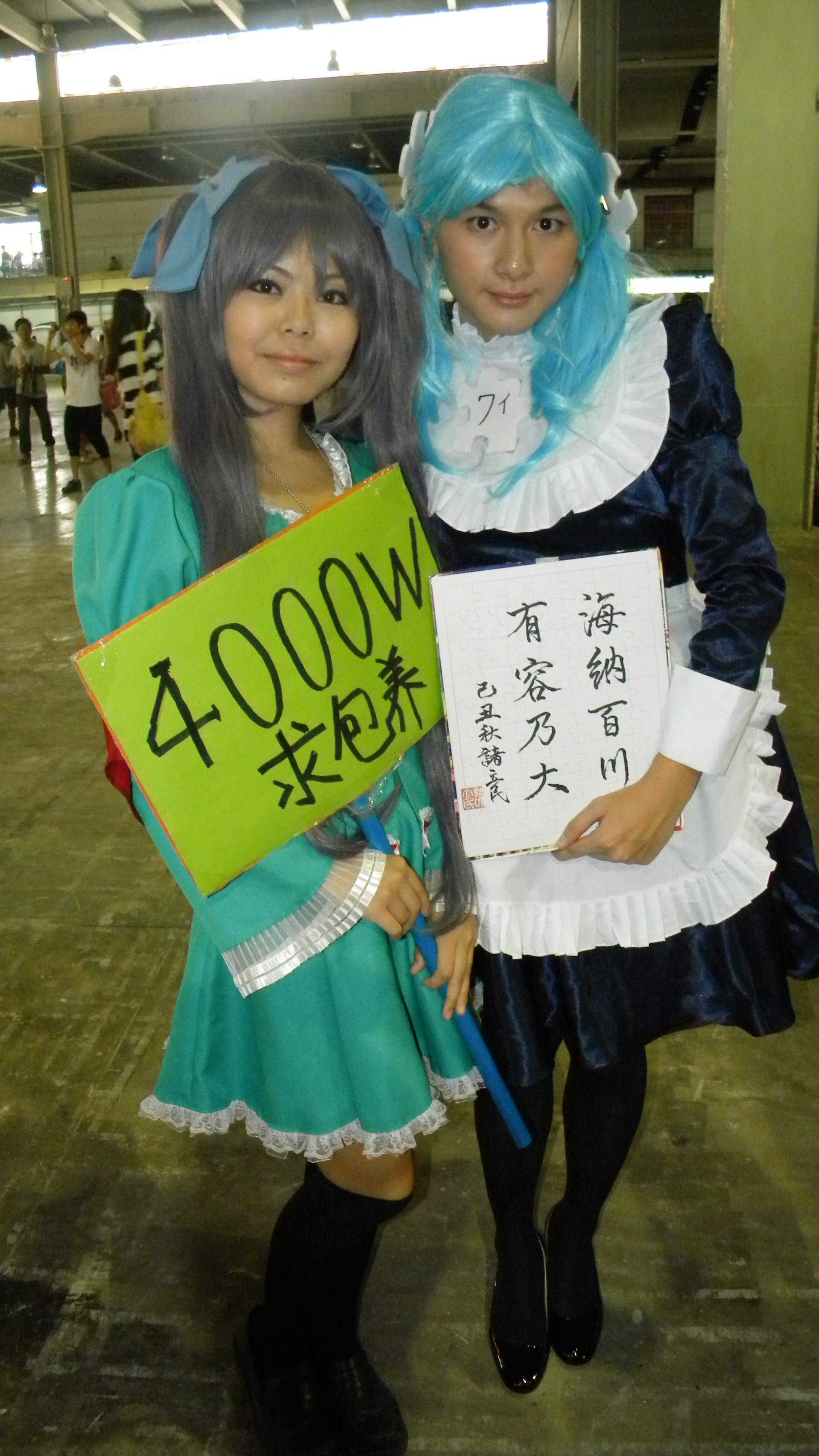 Cosplayers SoHome Jacaranda and Minnie PANG dressed as Wikipedia's anime mascot Wikipe-tan and Green Dam Youth Escort's anime-style moe anthropomorphism Green Dam Girl respectively on the right and left, at "Guangzhou - Hong Kong - Macau ACG Expo" 2009 in Guangzhou, CHINA. Character designer (Wikipe-tan): Kasuga Character designer (Green Dam Girl): (to be investigated) Cosplayer (Wikipe-tan): SoHome Jacaranda / SoHome Jacaranda Lilau Cosplayer (Green Dam Girl): Minnie PANG Photography: Ryumew Photo holder: SoHome Jacaranda Lilau, Minnie PANG, Wikimedia Hong Kong